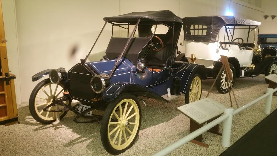 1913 Metz Runabout ; This car is located at The Museum of Automobiles in Petit Gene, Arkansas